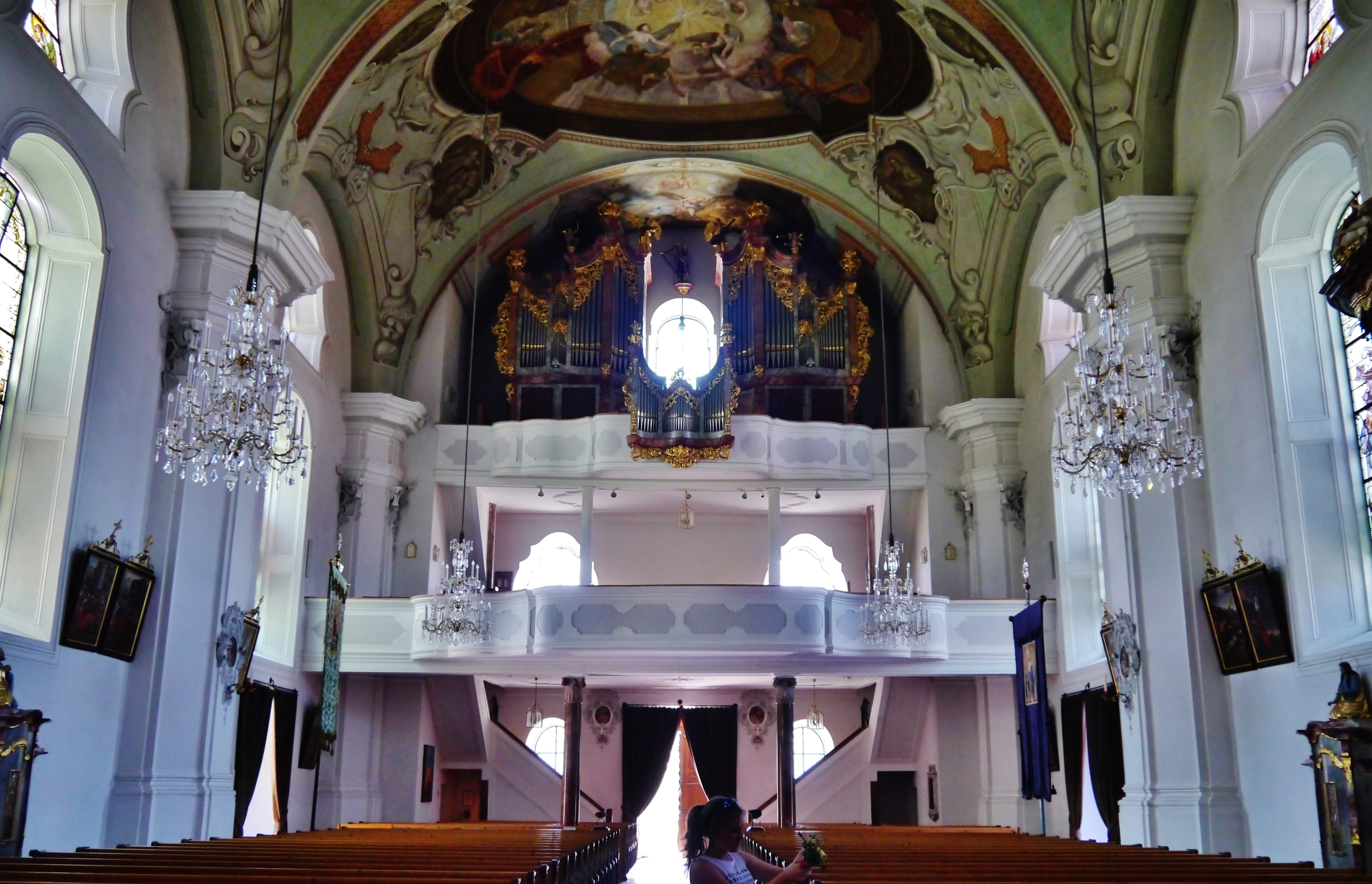 Nave of Sts. James & Leonard, Hopfgarten, Tyrol, Austria